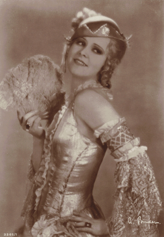 Liane Haid